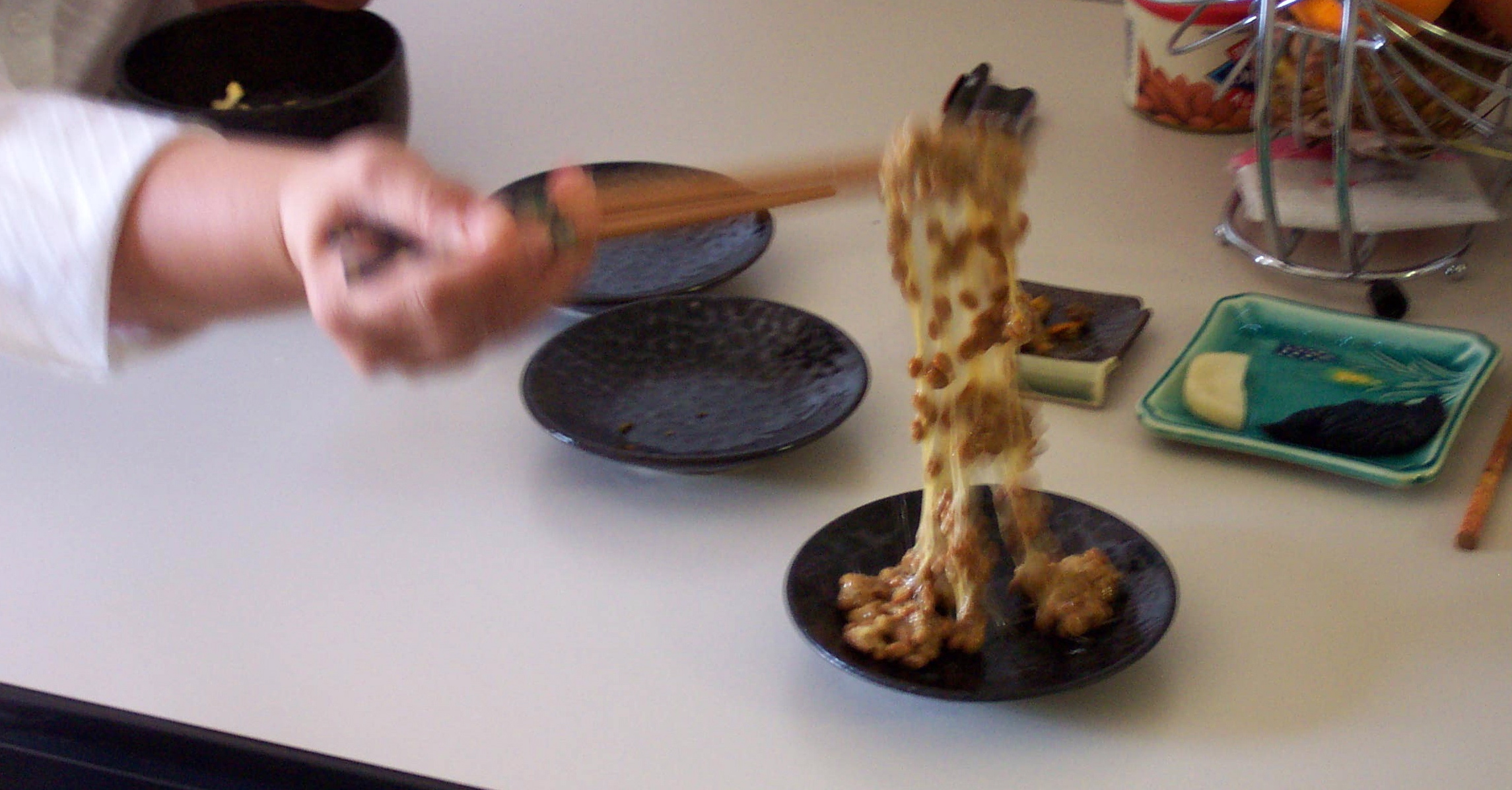 From 2004 Trip to JapanNatto!